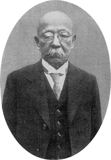 Mr. Torasaburō Araki, President of the Education Association of Kyoto Prefecture.